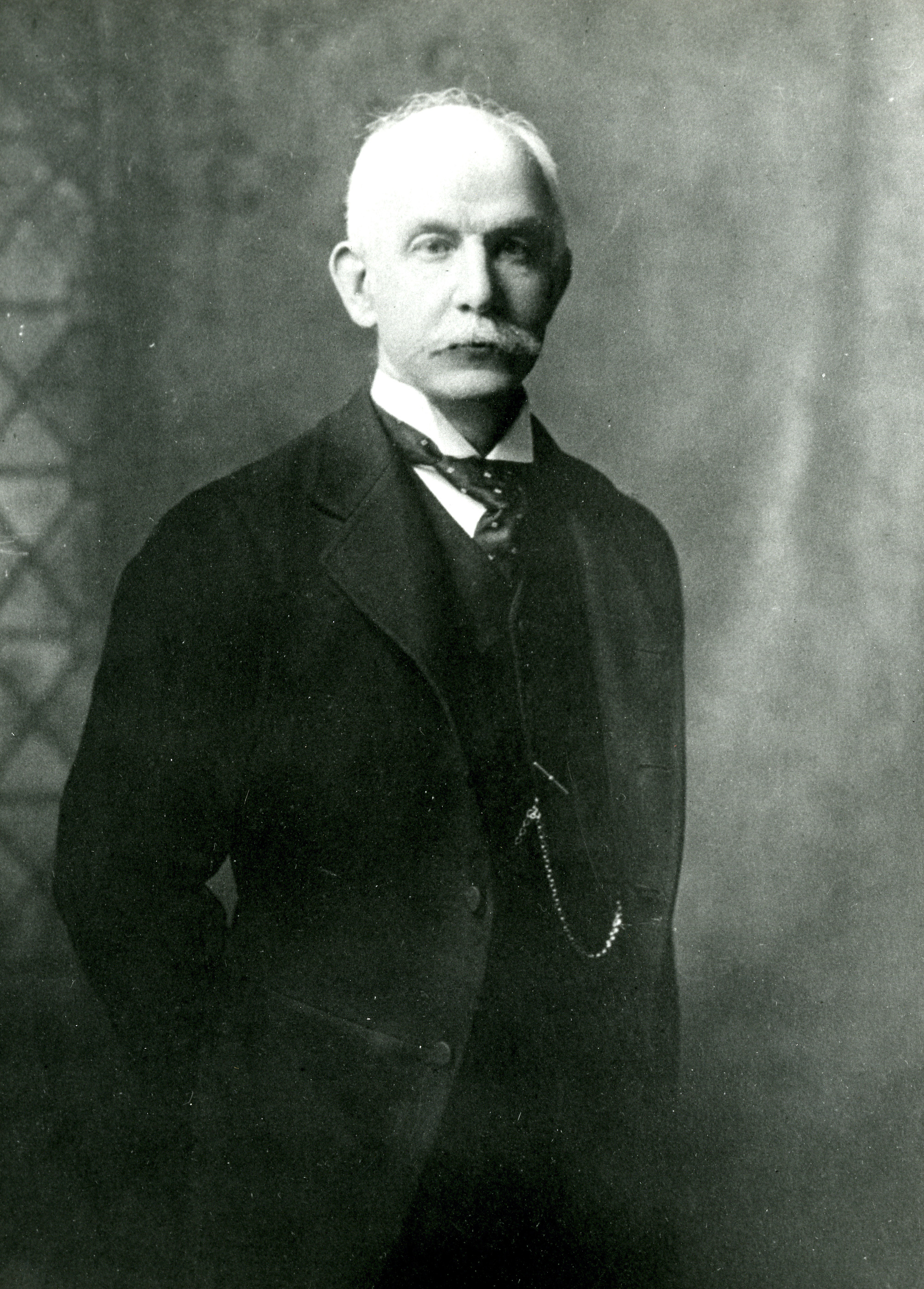 Peter Chardon Brooks Adams (June 24, 1848, Quincy, Massachusetts - February 13, 1927, Boston), was an American historian and a critic of capitalism. He graduated from Harvard University in 1870 and studied at Harvard Law School in 1870 and 1871.